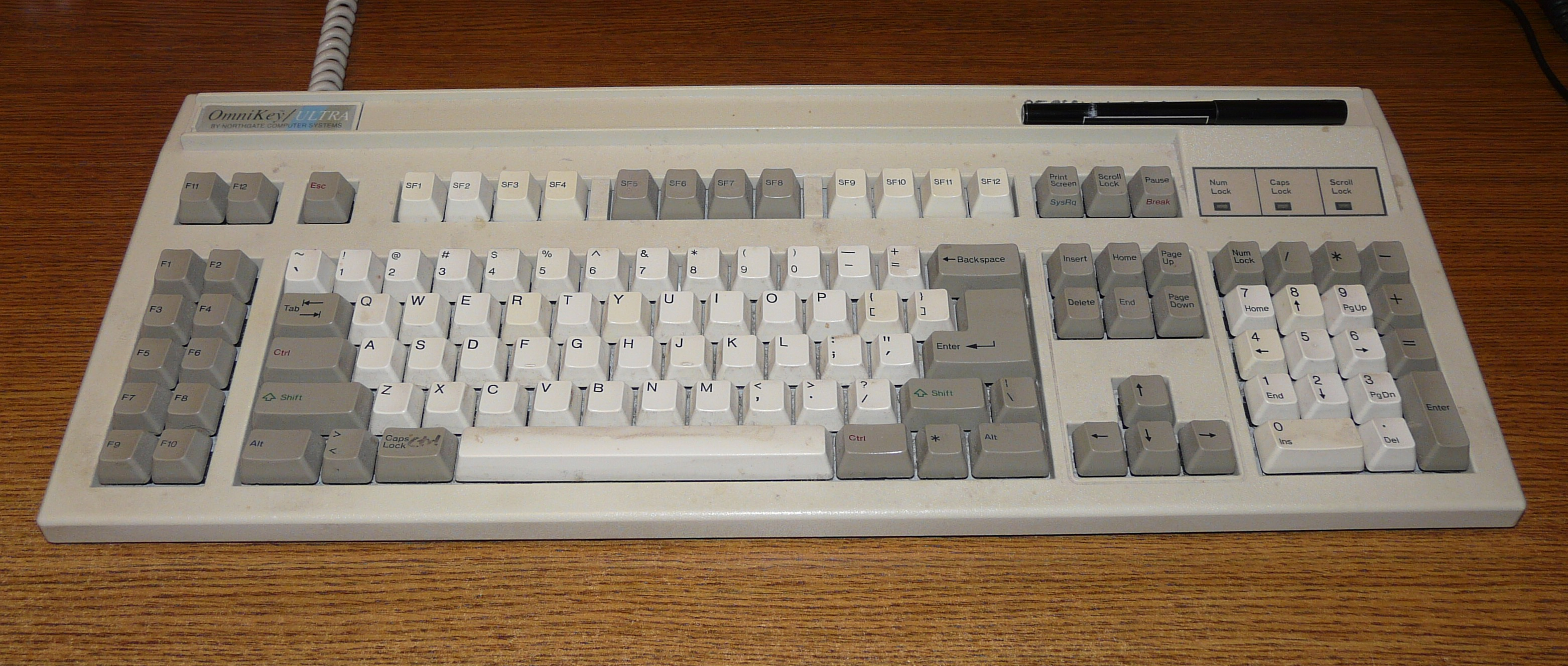 A Northgate Computers OmniKey/ULTRA PC keyboard, built circa 1993